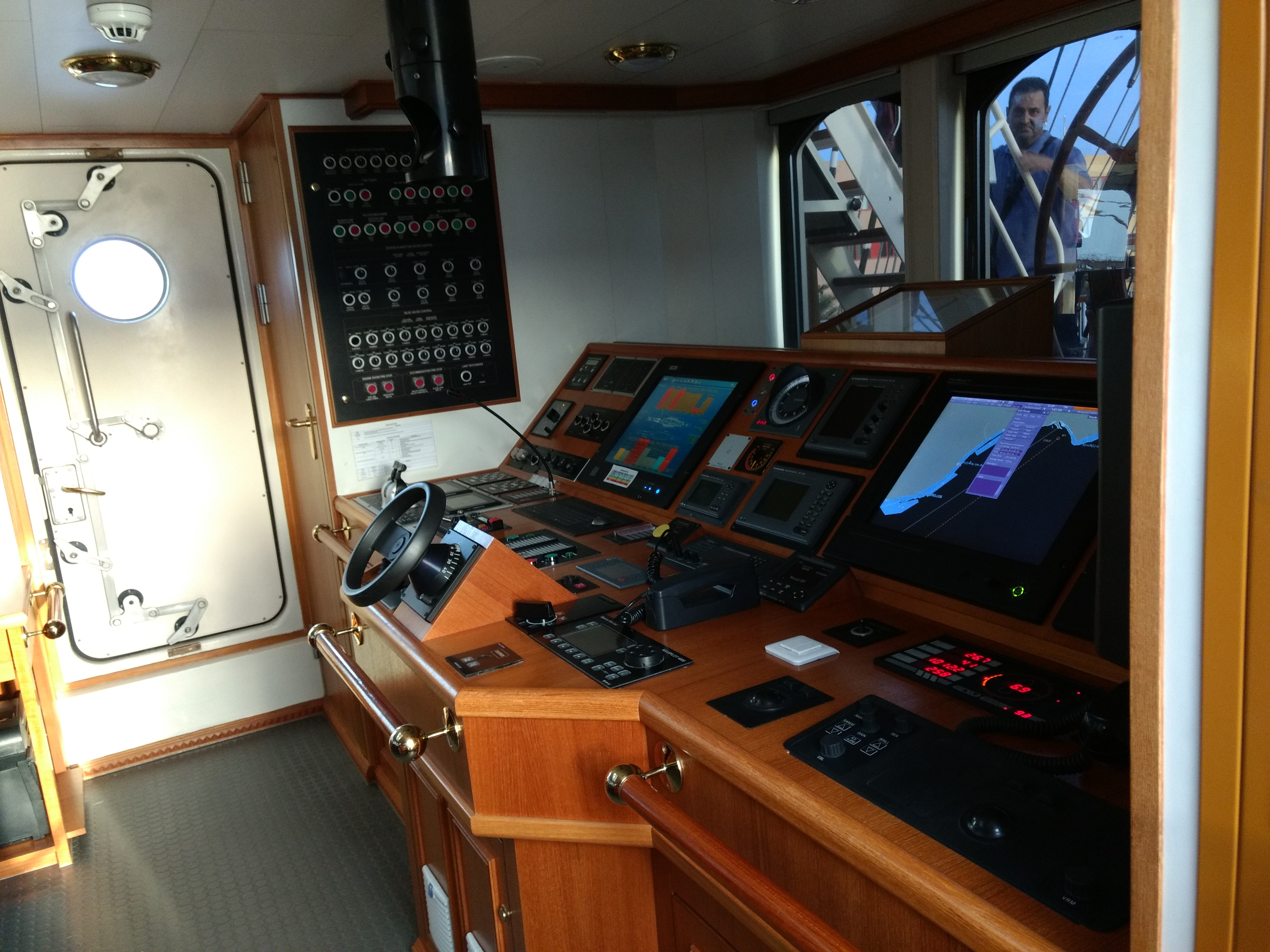 Shabab Omán II, school ship of the Royal Navy of Oman RNOV Shabab Oman II visiting the port of Almería